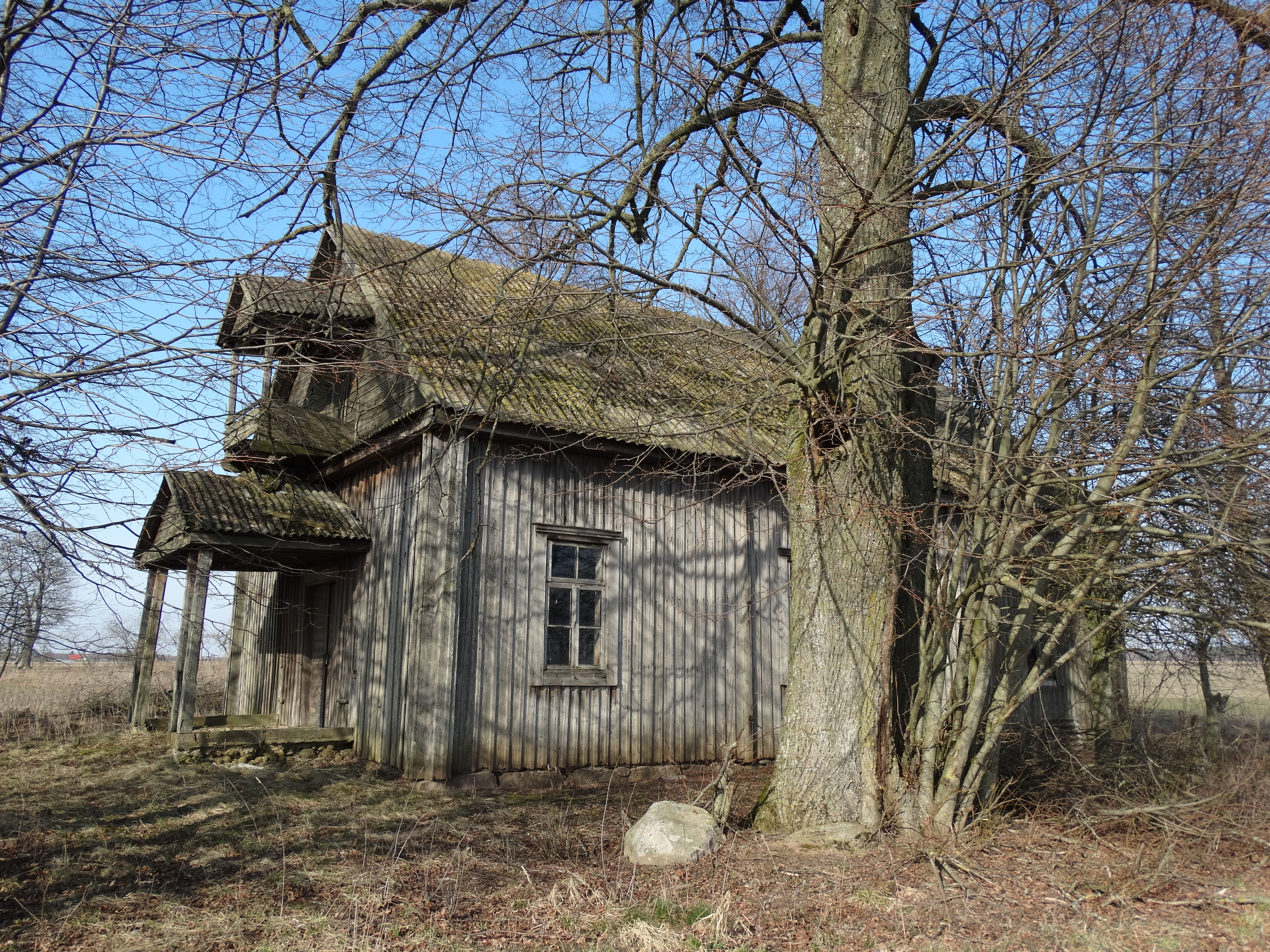 Former church of Old Believers in Kritižis, Panevėžys District, Lithuania